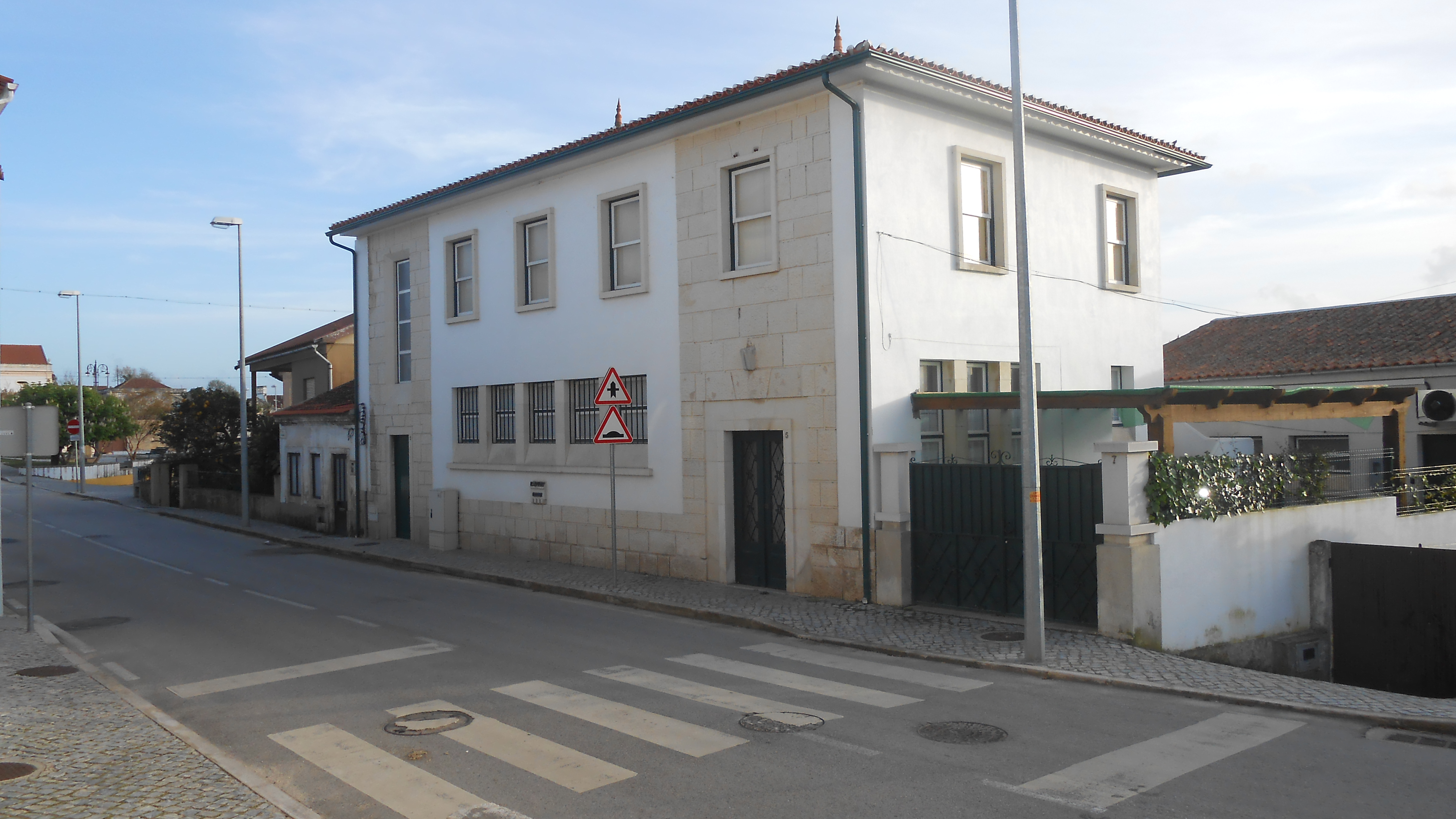 Bulding of the former post office in Verride, municipality of Montemor-o-Velho, district of Coimbra, Portugal